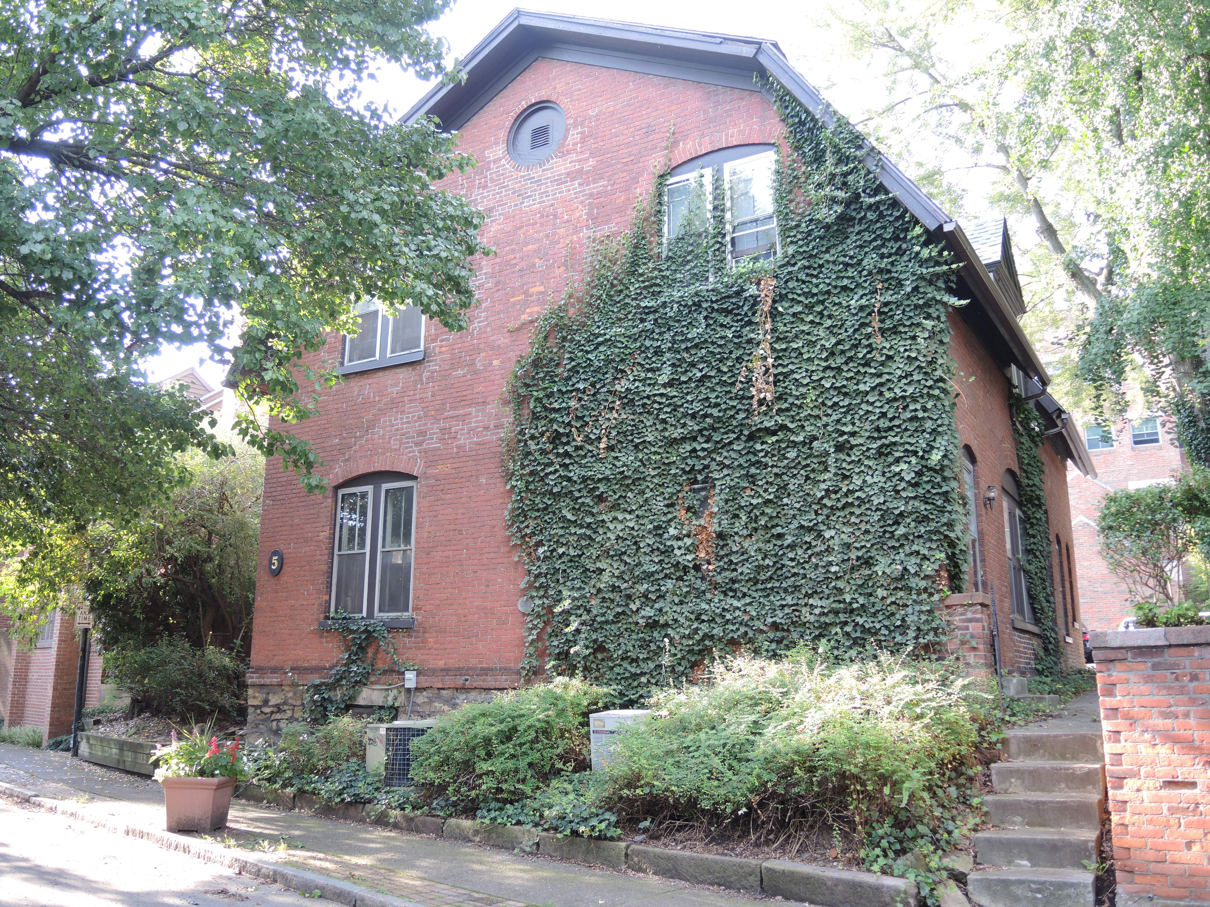 House in the Grove Place Historic District in Rochester, New York